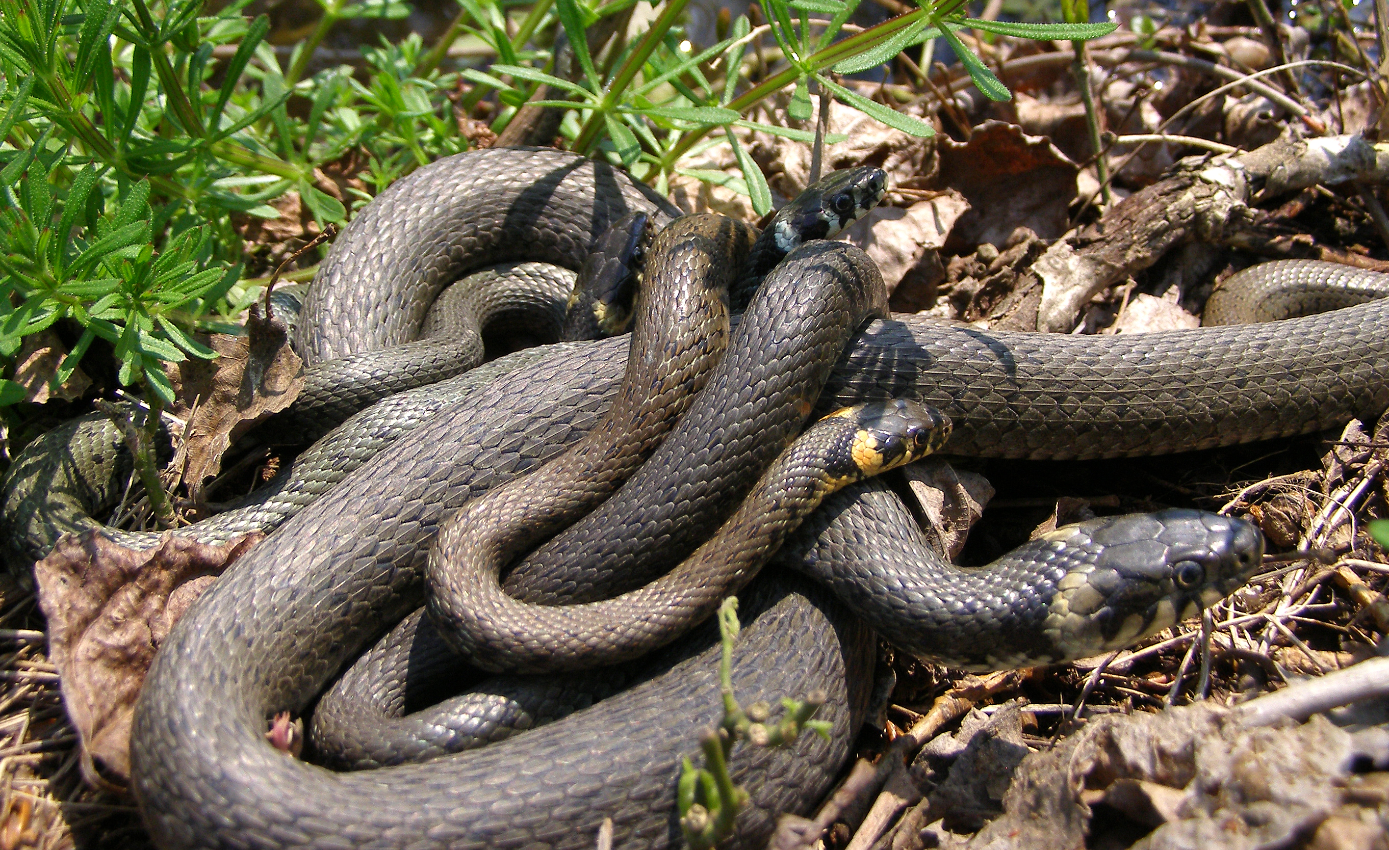 The mating of Grass snakes (Natrix natrix)